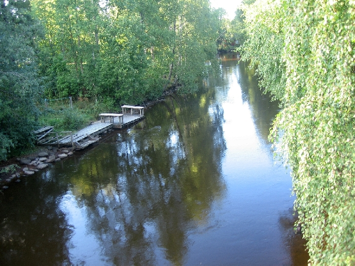 River Taipaleenjoki in Viinijarvi, Liperi, Finland.